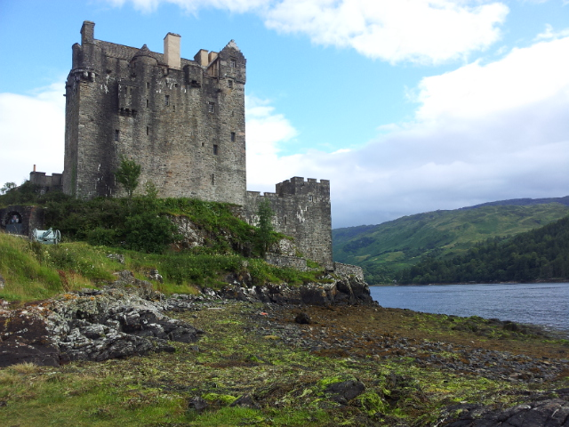 Eilean Donan Castle